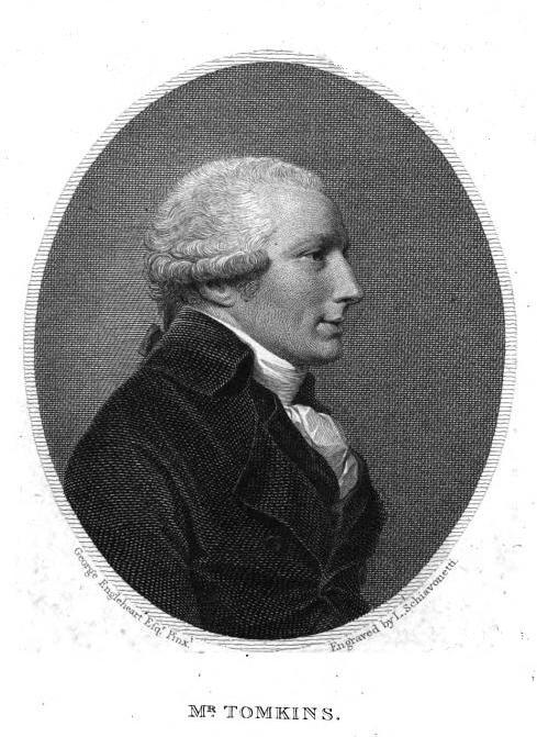 Portrait of Thomas Tomkins (1743–1816), English calligrapher. From Rays of Genius, collected to enlighten the rising generation (1806), by Tomkins.